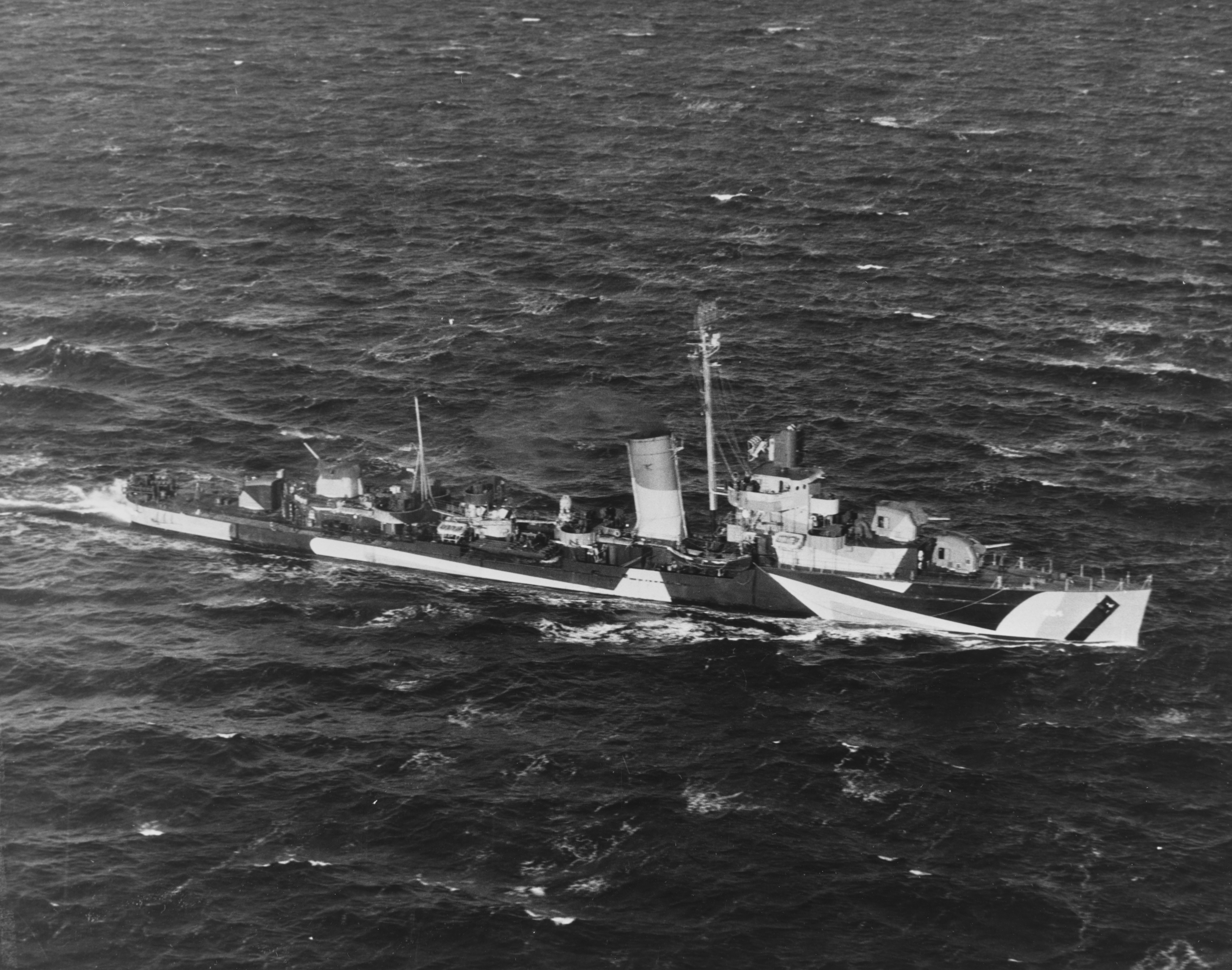 Photo #: 80-G-302260. USS Rhind (DD-404) operating in the Atlantic, off the U.S. East Coast, on 19 January 1945. Photographed from an aircraft belonging to squadron VJ-15. Rhind is painted in Camouflage Measure 32, Design 3D. Official U.S. Navy Photograph, now in the collections of the National Archives.